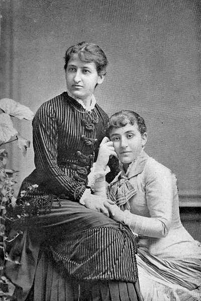 Aletta Jacobs with one of her patients.